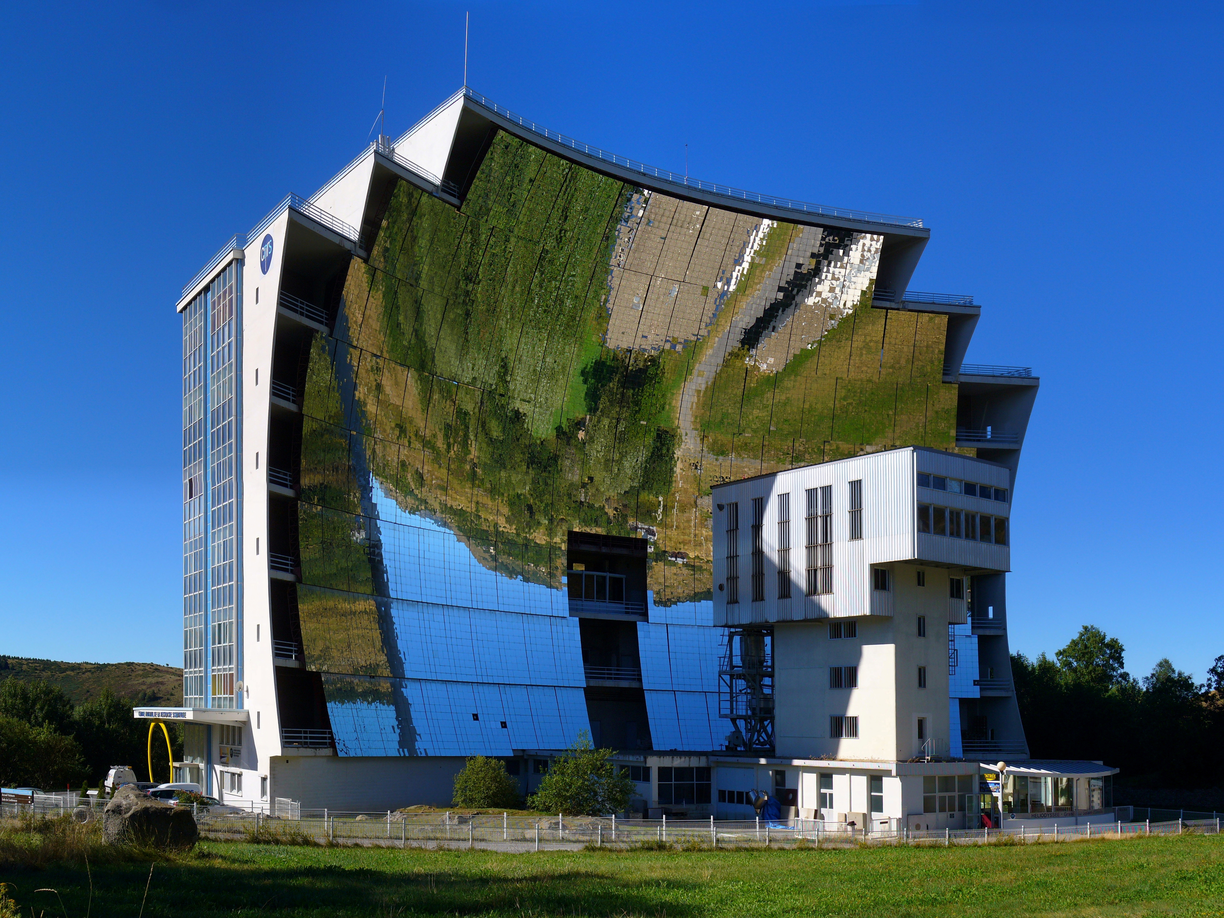 Solar furnace of Odeillo, Font-Romeu-Odeillo-Via, Dept. Pyrénées-Orientales, France